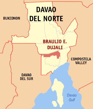 Map of the Davao del Norte showing the location of Braulio E. Dujali